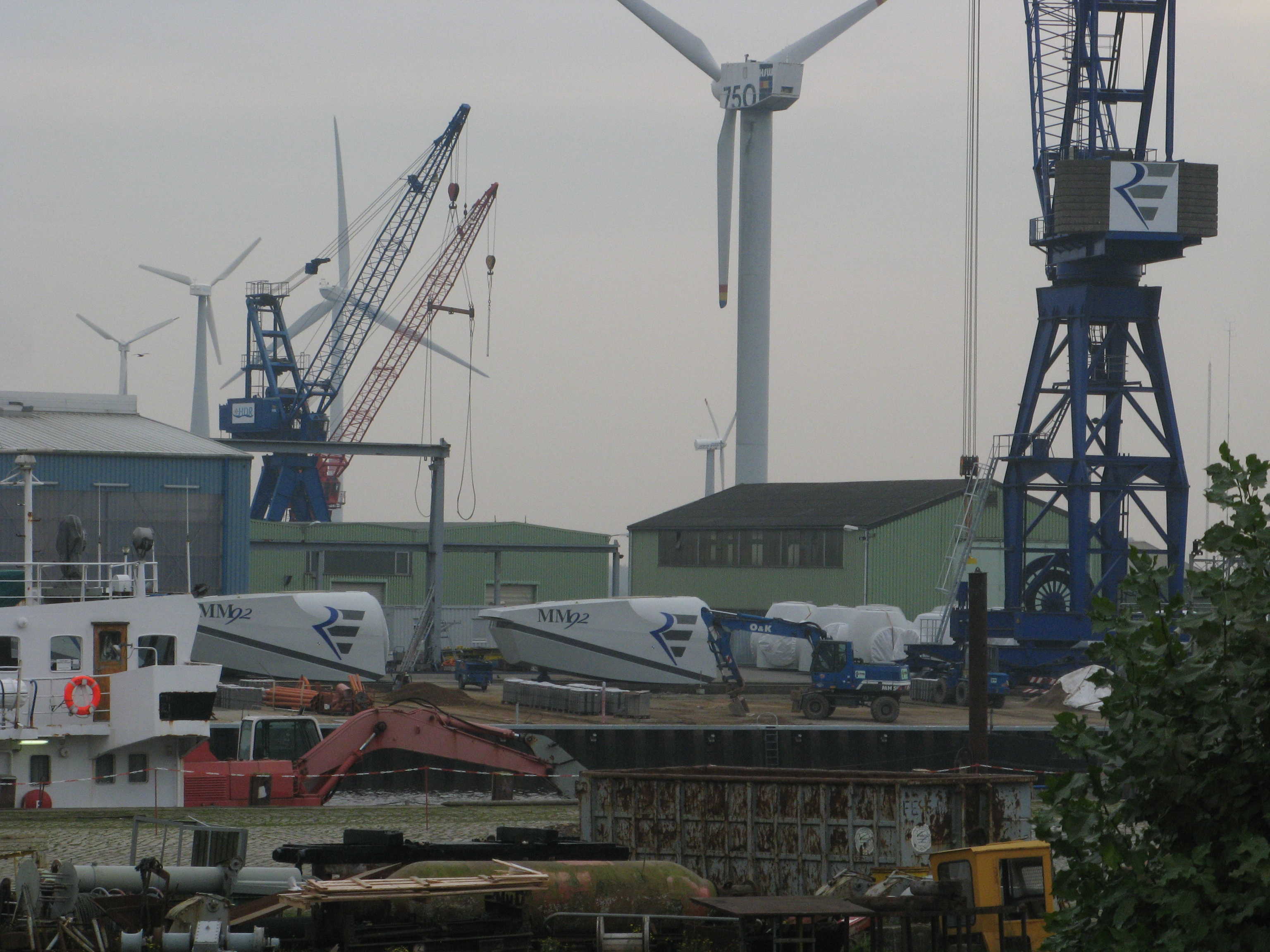 REpower wind turbines waiting in Husum harbour, North Frisia, Germany